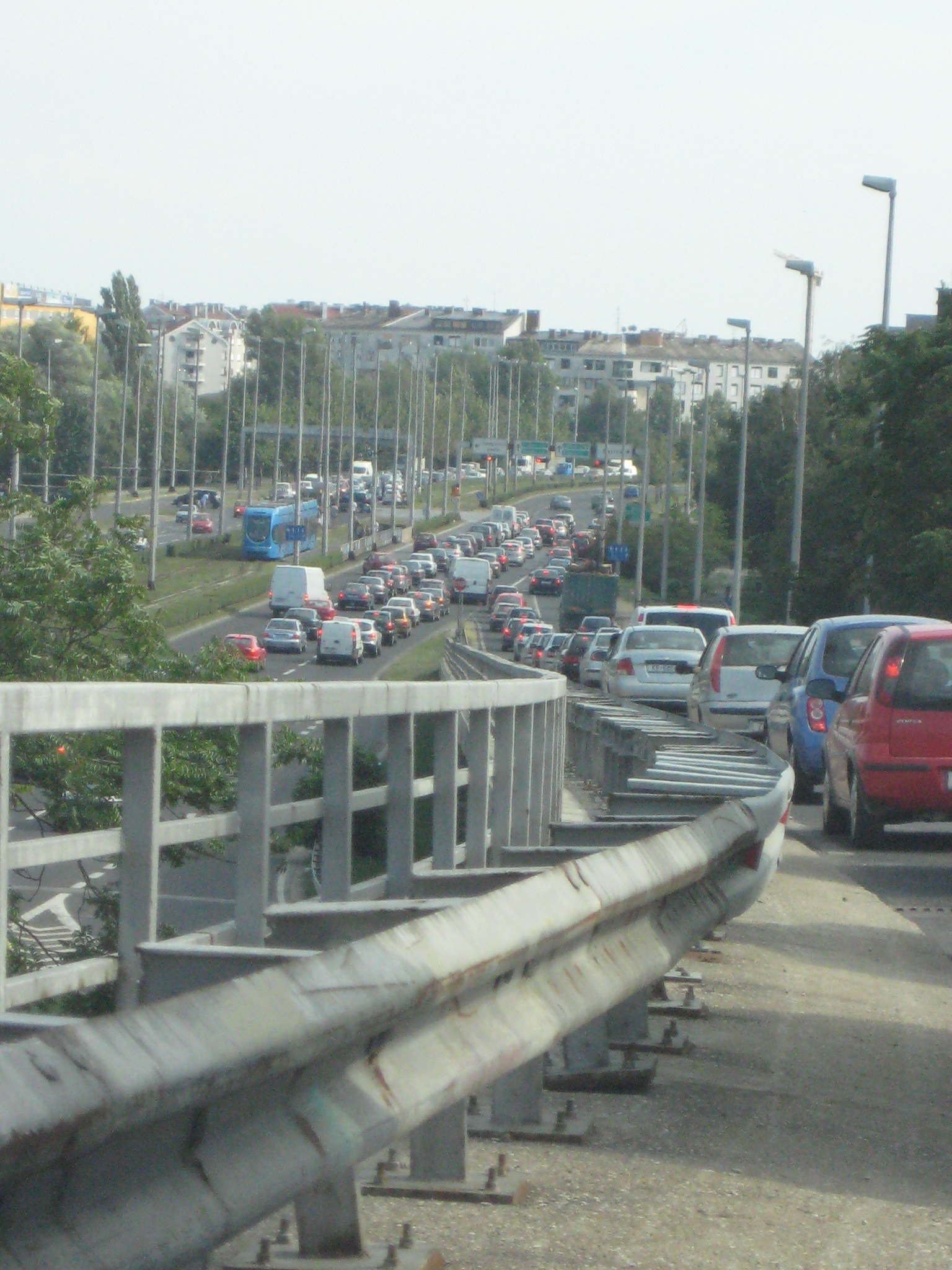 Držić Avenue in Zagreb